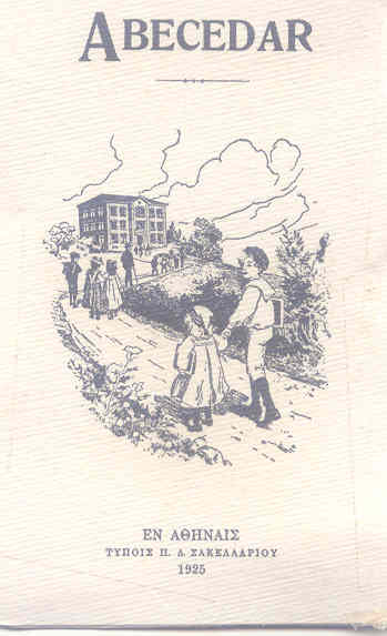 Cover of book by Greek goverment (1925)